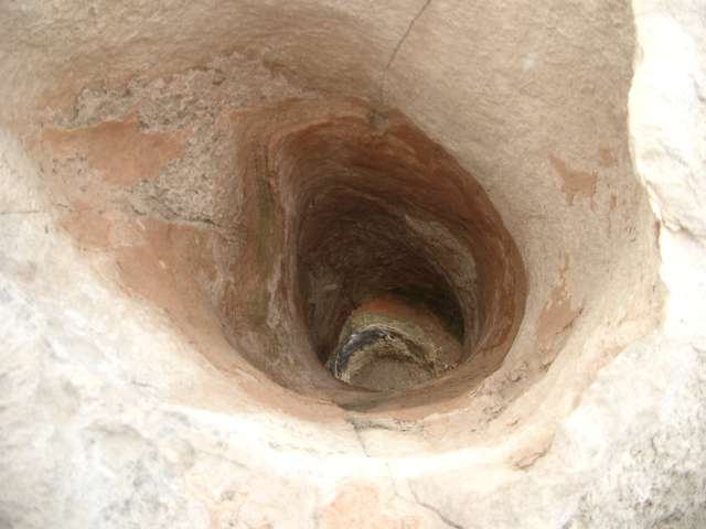 A pot hole in Limestone rock caused by pressure.